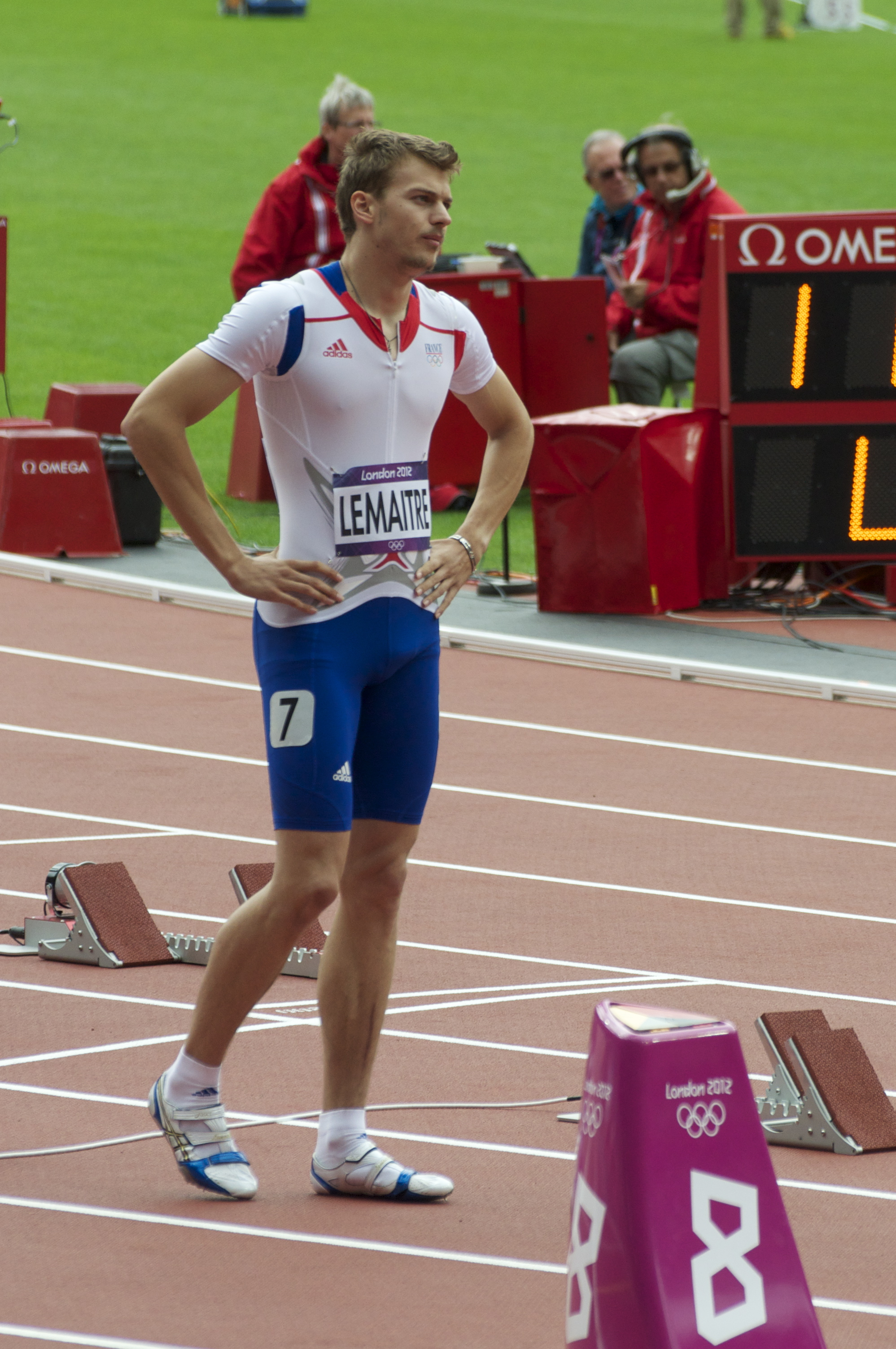 Christophe Lemaitre during the heats of the 2012 Olympic men's 200m